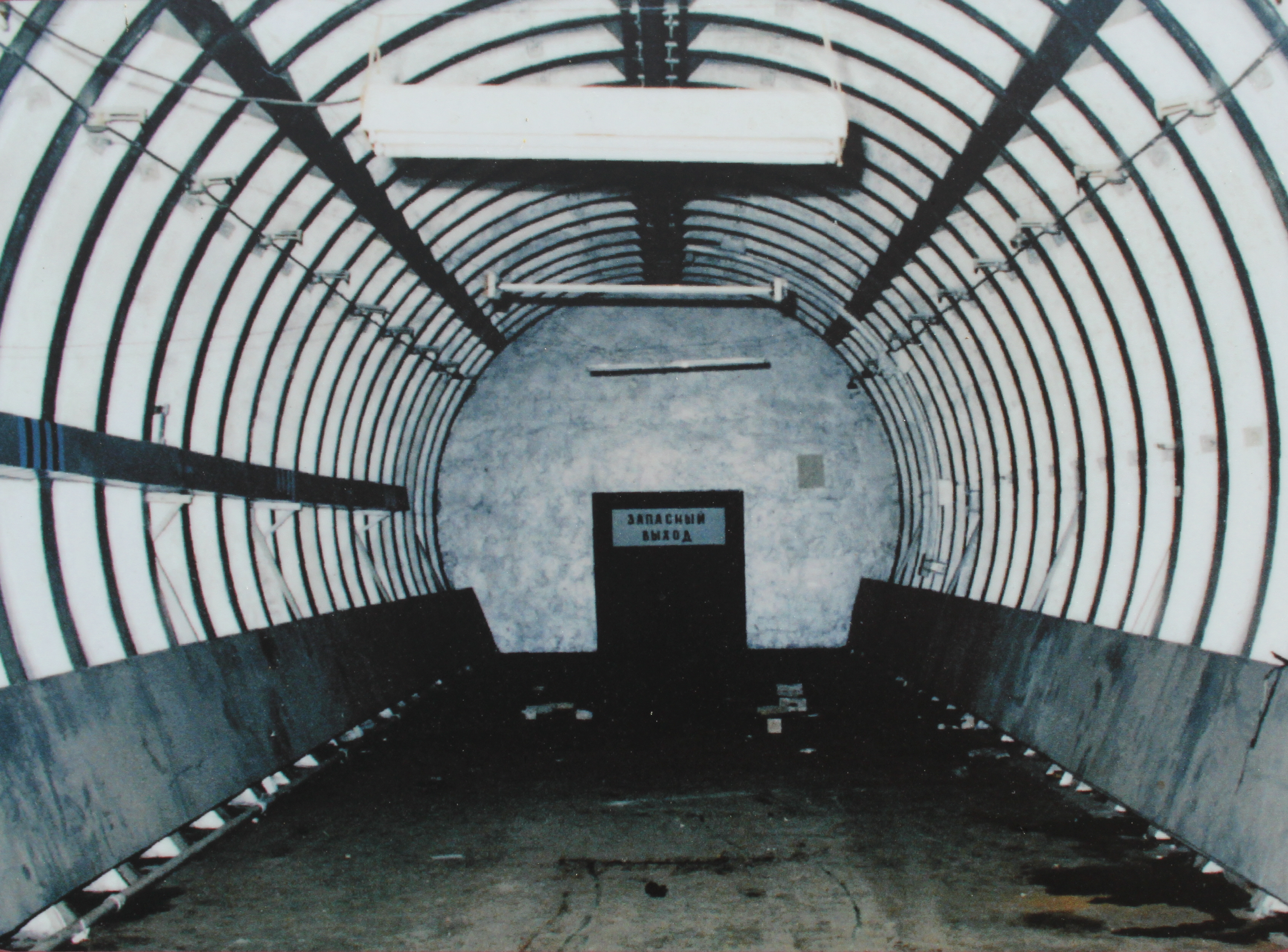 Group of the Soviet Forces in Germany (GSFG) 1945-1994; sites and location to sore or maintain nuclear ammunition, here: Special Weapons Depots (SWD) Special Weapons Depot Großenhain Stock bunker: inside, after withdraw 1994.